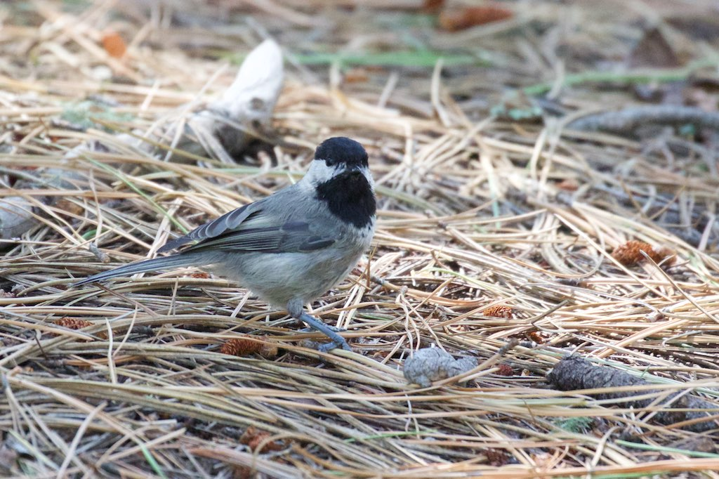 Mexican Chickadee Poecile sclateri, Barfoot, Cave Creek, Arizona